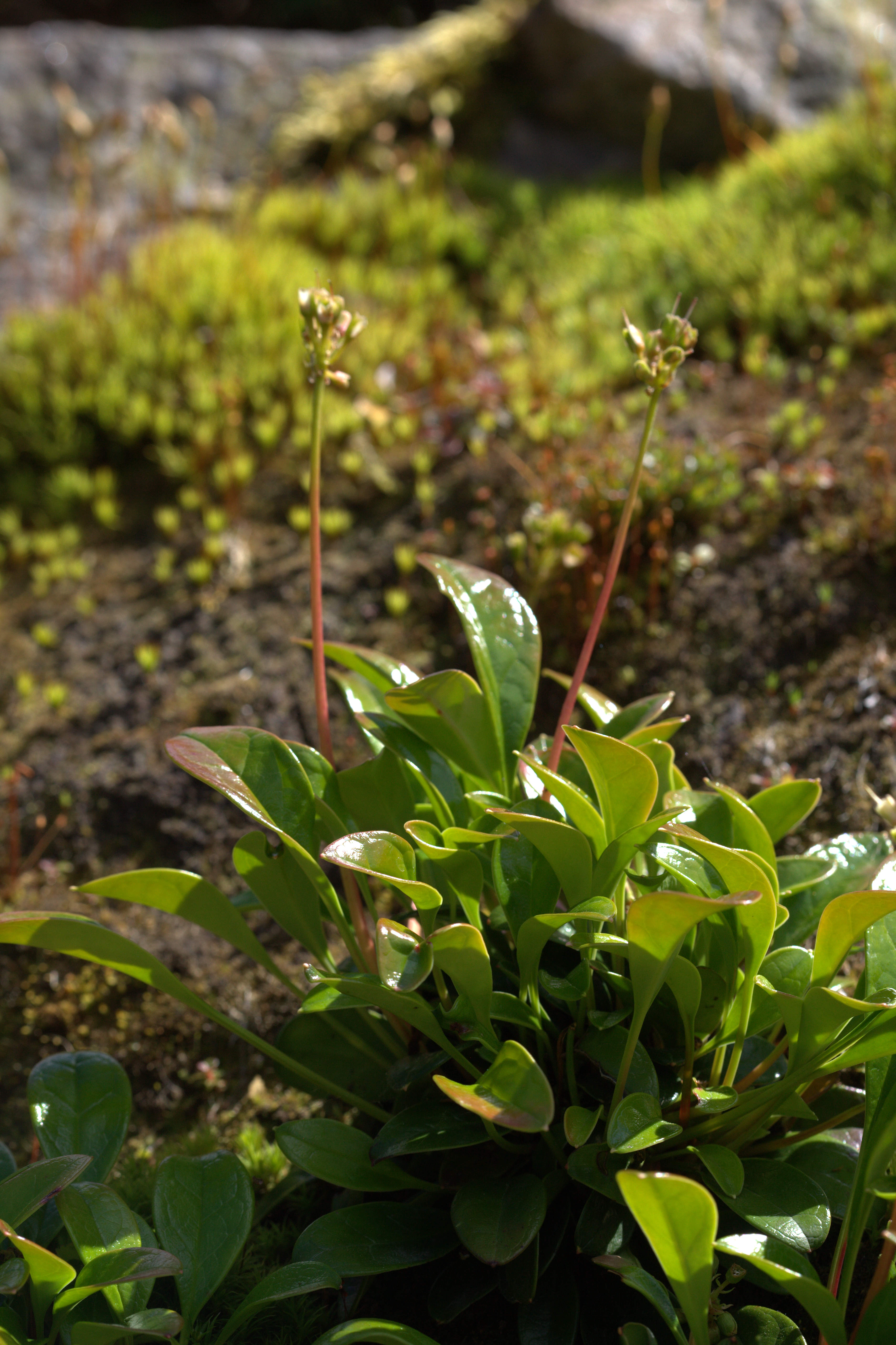 Photo taken at Gothenburg botanical garden. Specimen id: 2007-1646 s G Seed collected in 2007 from a garden (GBT/Larsen).